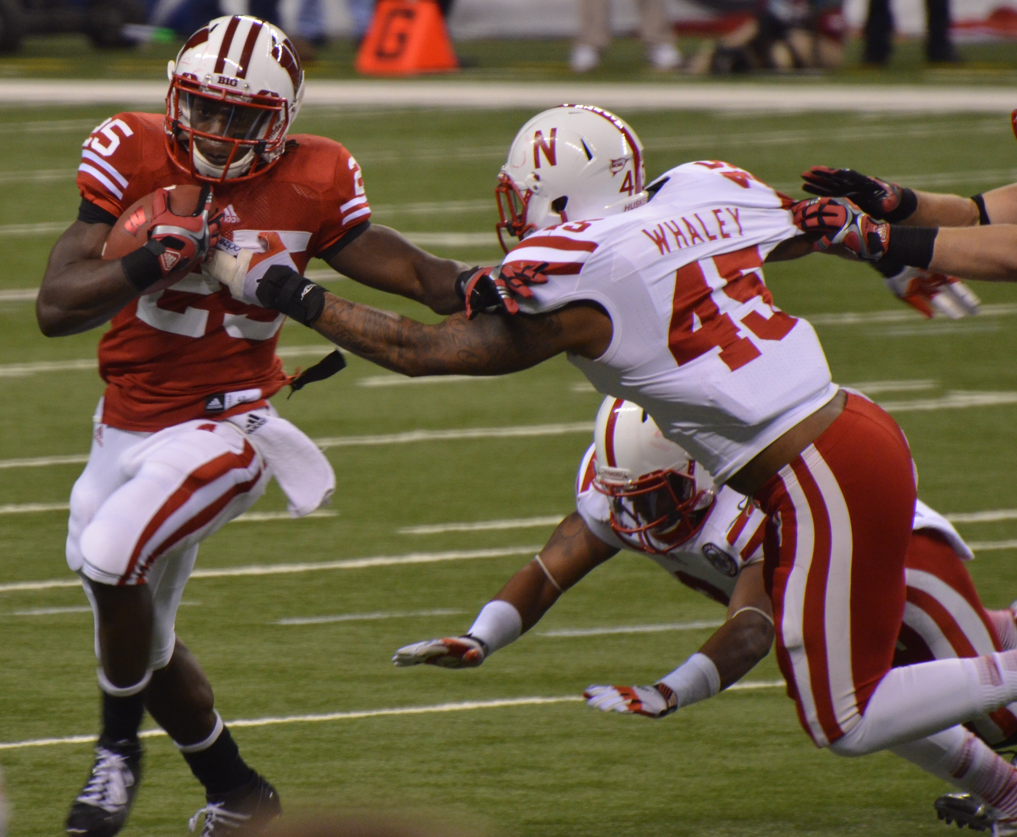 Wisconsin running back Melvin Gordon attempts to evade a tackle by Nebraska linebacker Alonzo Whaley in the w:2012 Big Ten Football Championship Game.